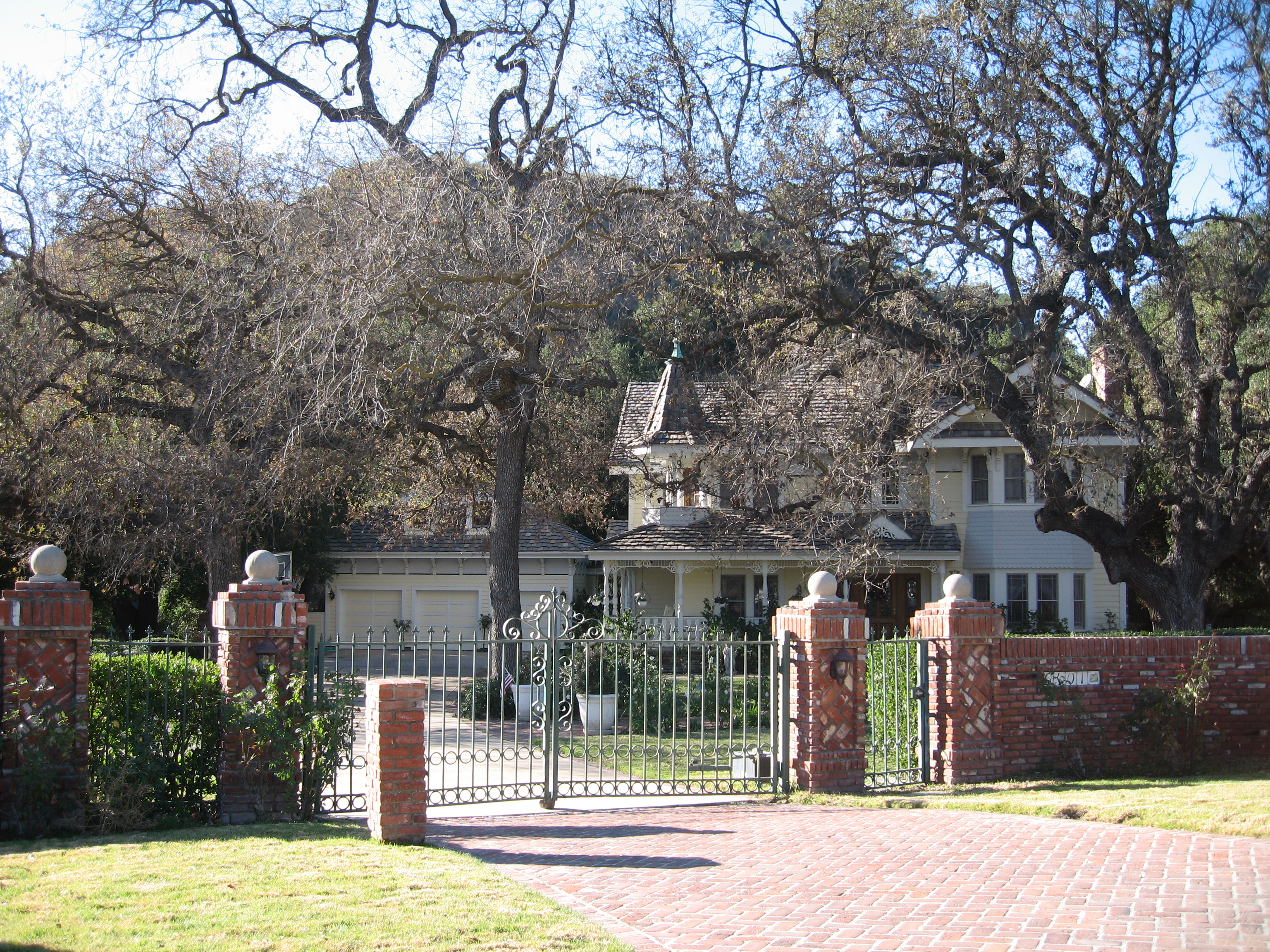 An estate in Old Agoura Kapampangan: Metung a estate king Matuang Agoura